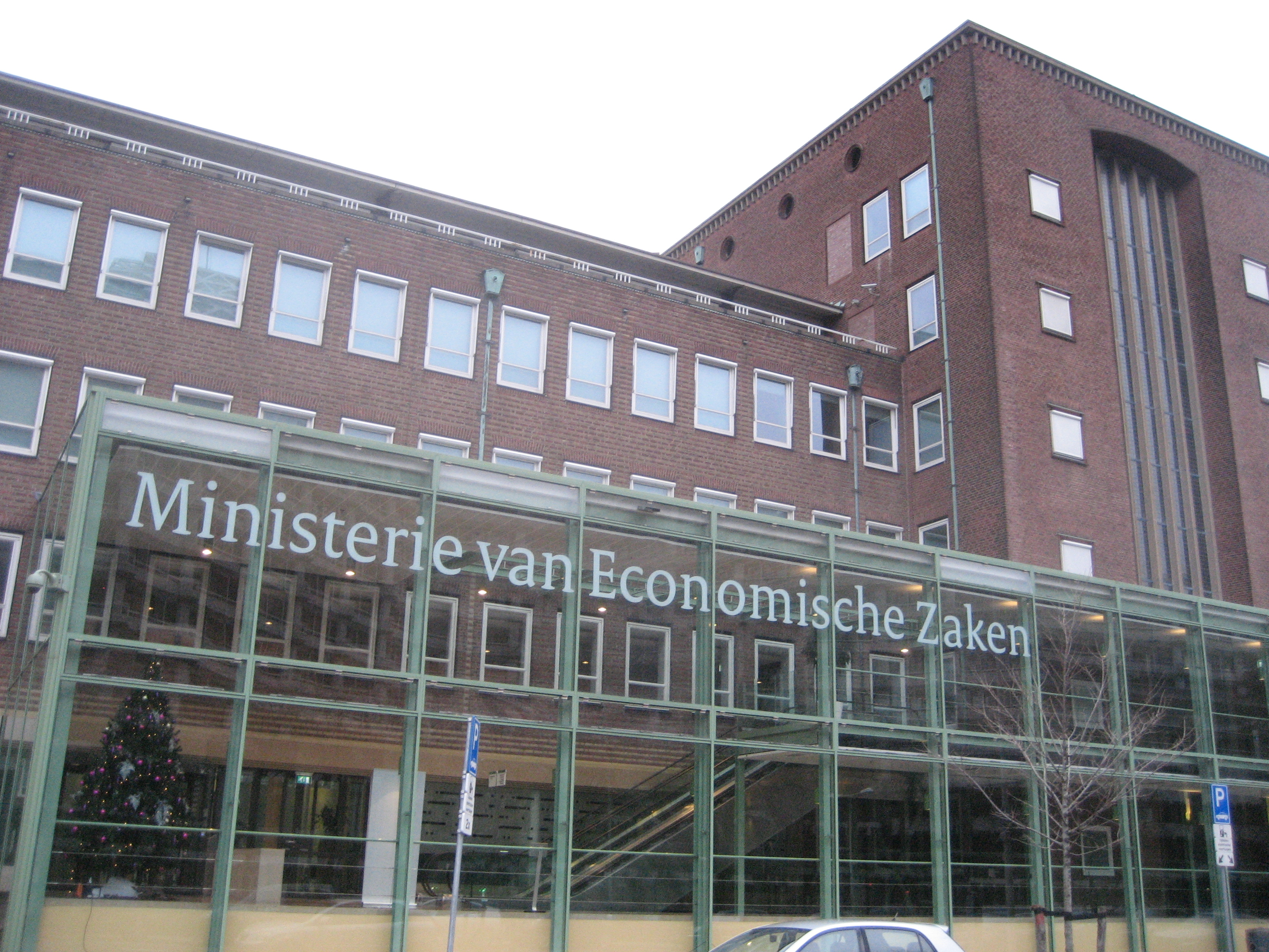 Ministry of Economic Affairs, Agriculture and Innovation (Netherlands)